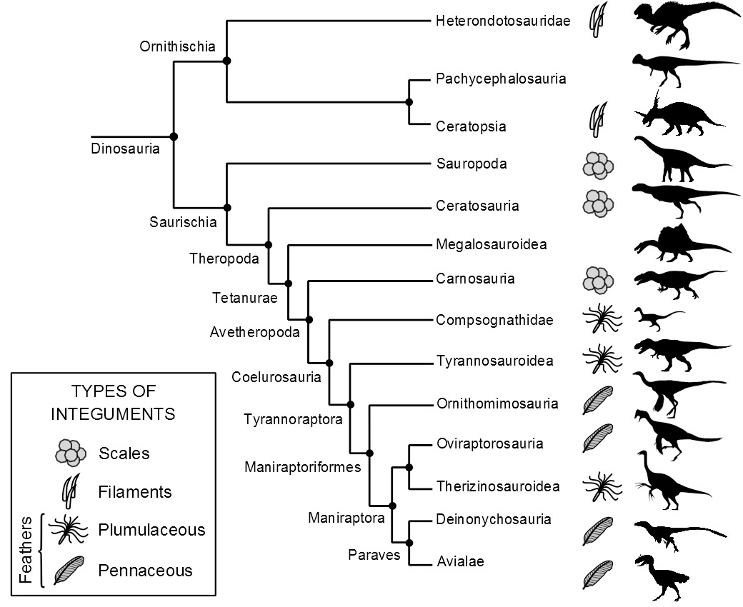 Simplified cladogram of Dinosauria with the distribution of feathers according to the fossil record. Despite its more ancient origin, it was only in maniraptoriformes that modern-type feathers (pennaceous feathers) have arisen (Based in Xu & Guo, 2009; Clarke, 2013; Godefroit et al., 2013; Han et al., 2014; Koshchowitz et al., 2014).